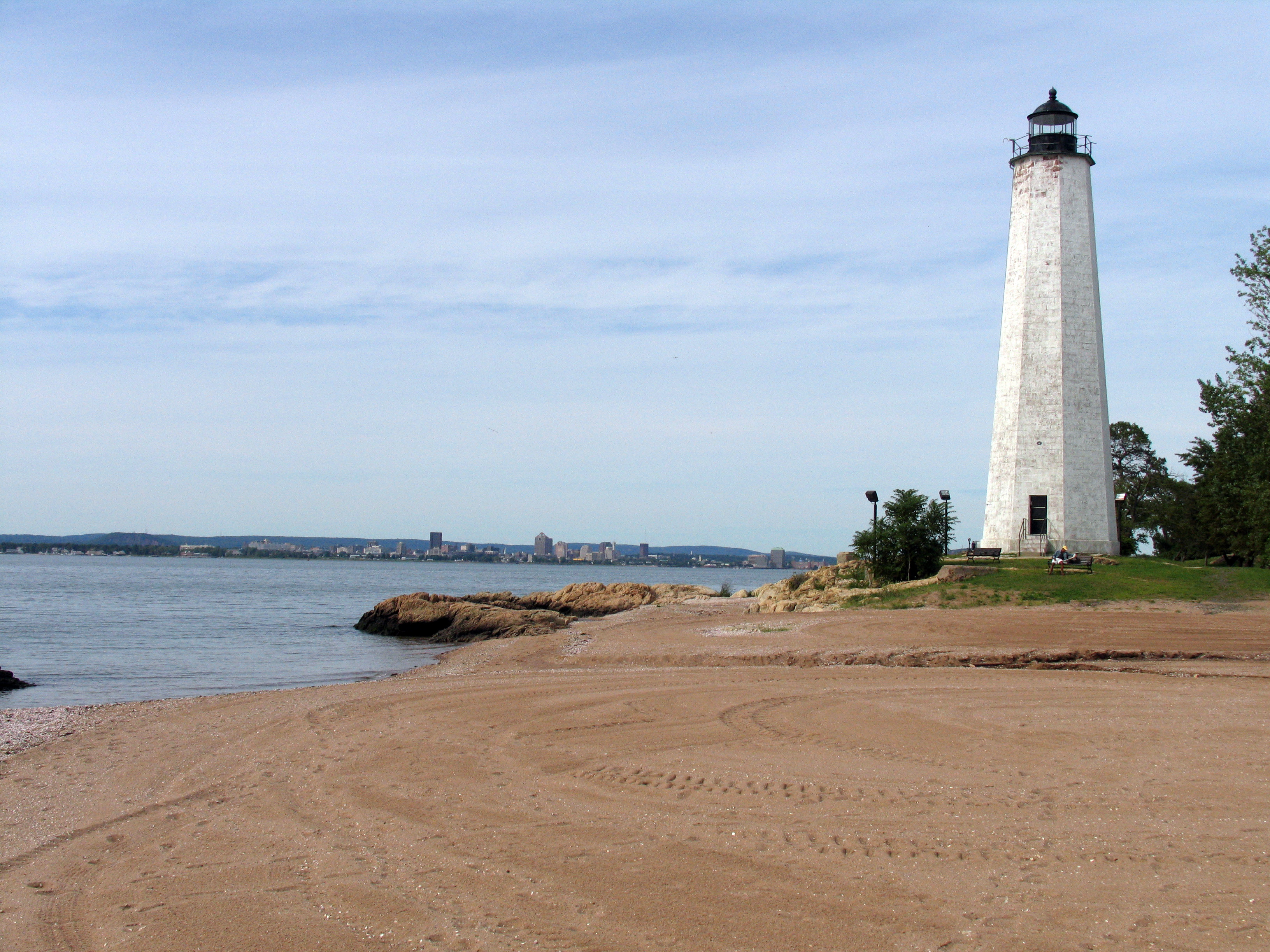 Five Mile Point Light, located in New Haven, Connecticut, USA